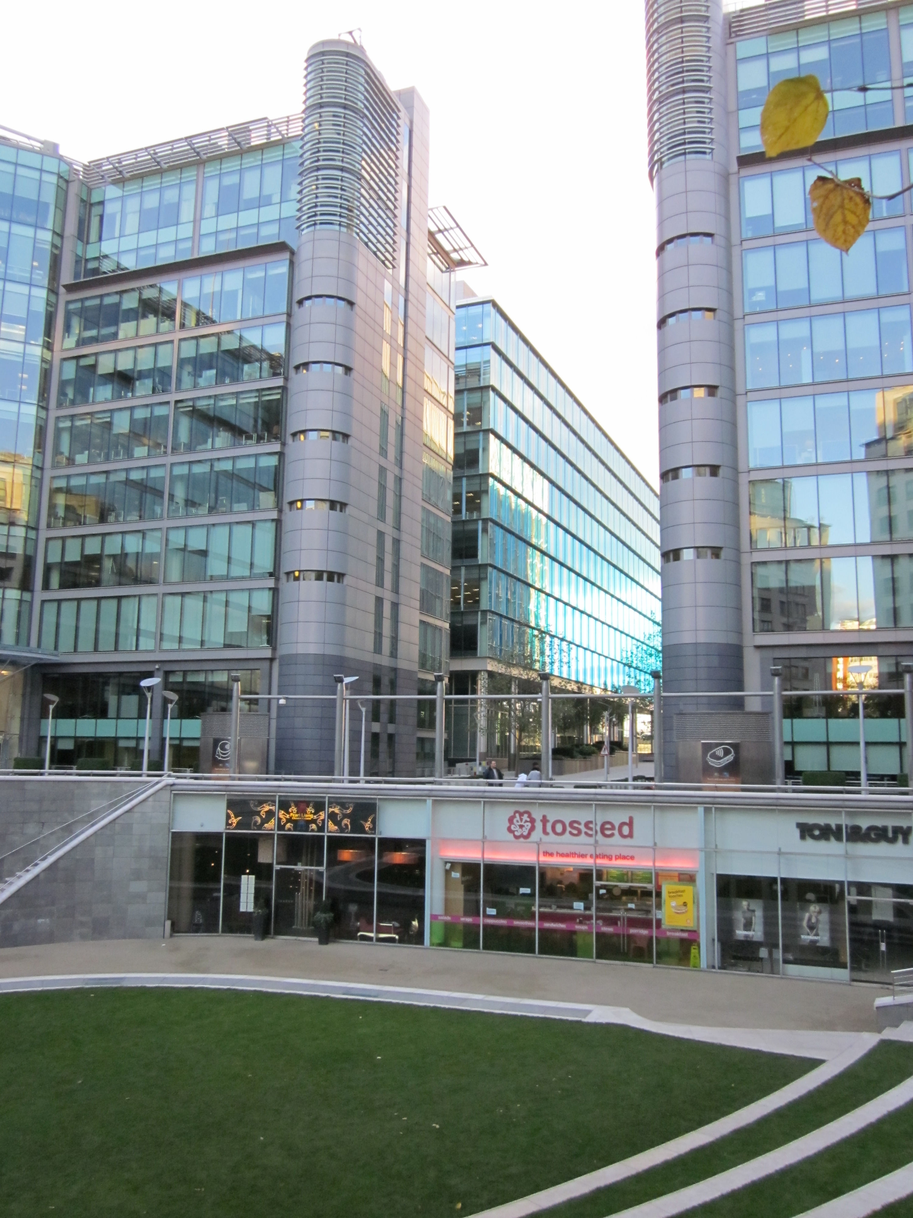 Sheldon Square, part of the PaddingtonCentral development within the Paddington Waterside regeneration project in central London.